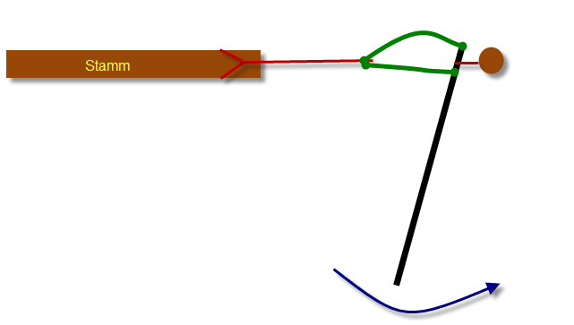 A tree-felling tool diagram